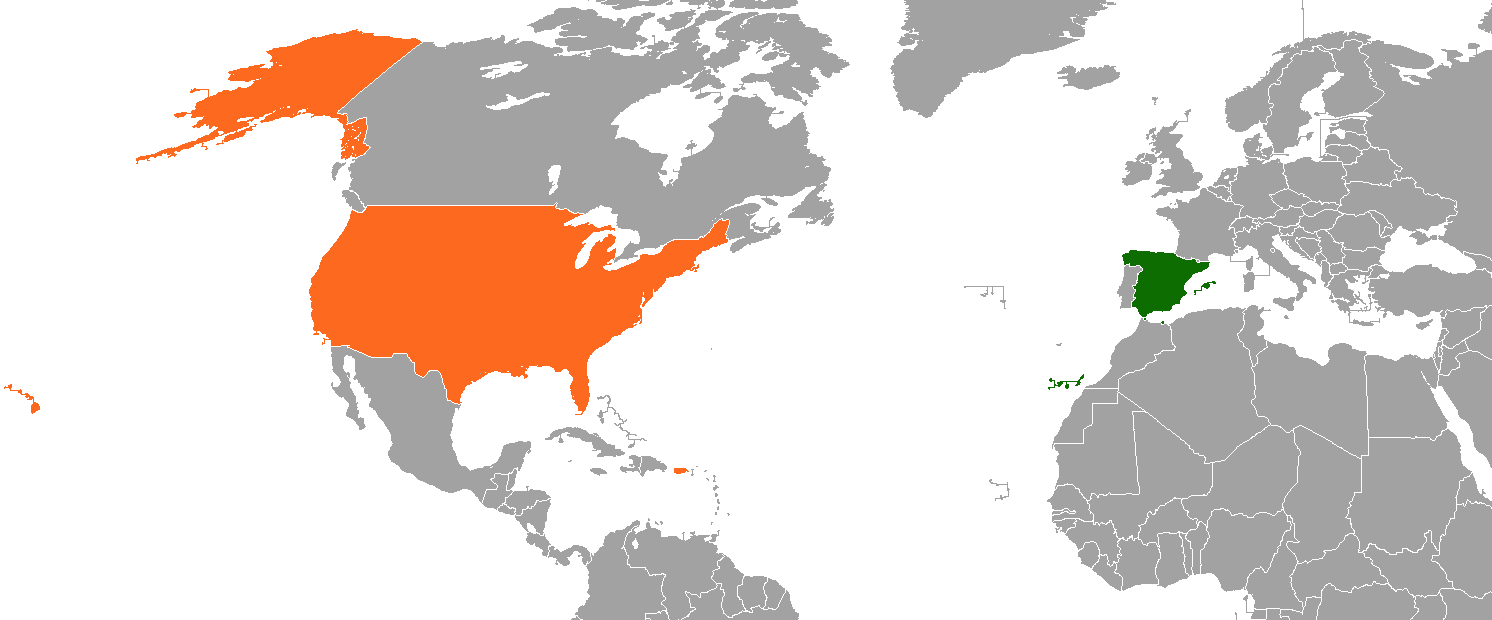 Description: Map of the world indicating the United States of America and Spain. For use in Spanish-American relations and similar articles. Source: Own work. Based on Image:BlankMap-World-v5.png Date: 1/25/08. Author: User:Polylerus Permission: In Public Domain. See licence below.